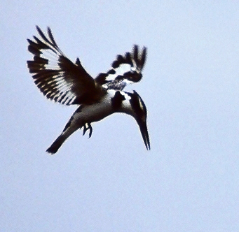 A pied kingfisher hovering while looking for fish